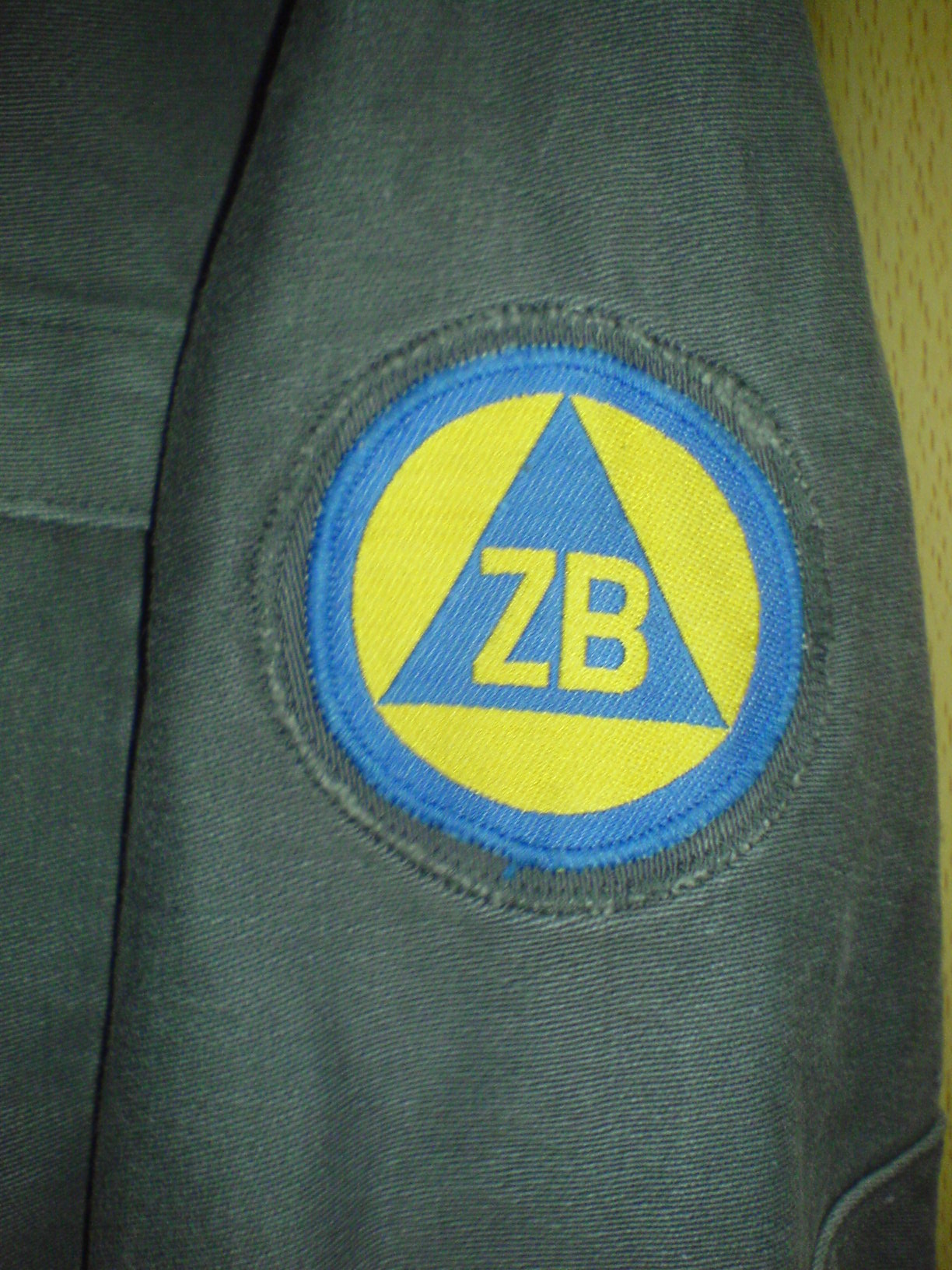 It's the Signet of the German Civil Protection.